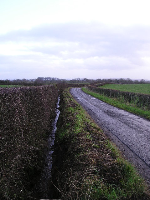 Ditch. Roadside ditch to the East of Sevenacres Mains.